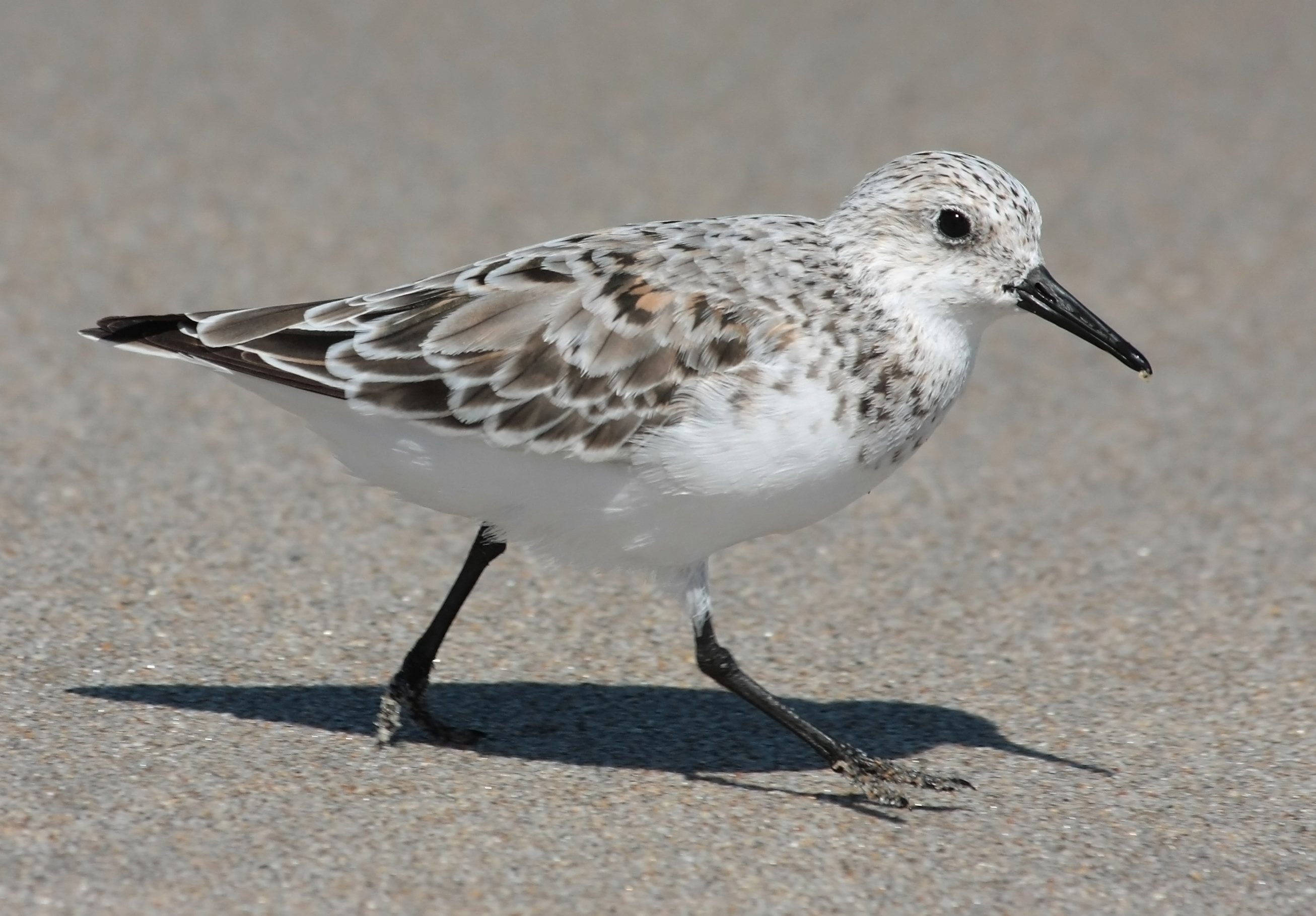 A running sanderling captured in mid stride.